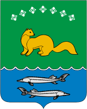 Zhigansk rayon (Yakutia), coat of arms